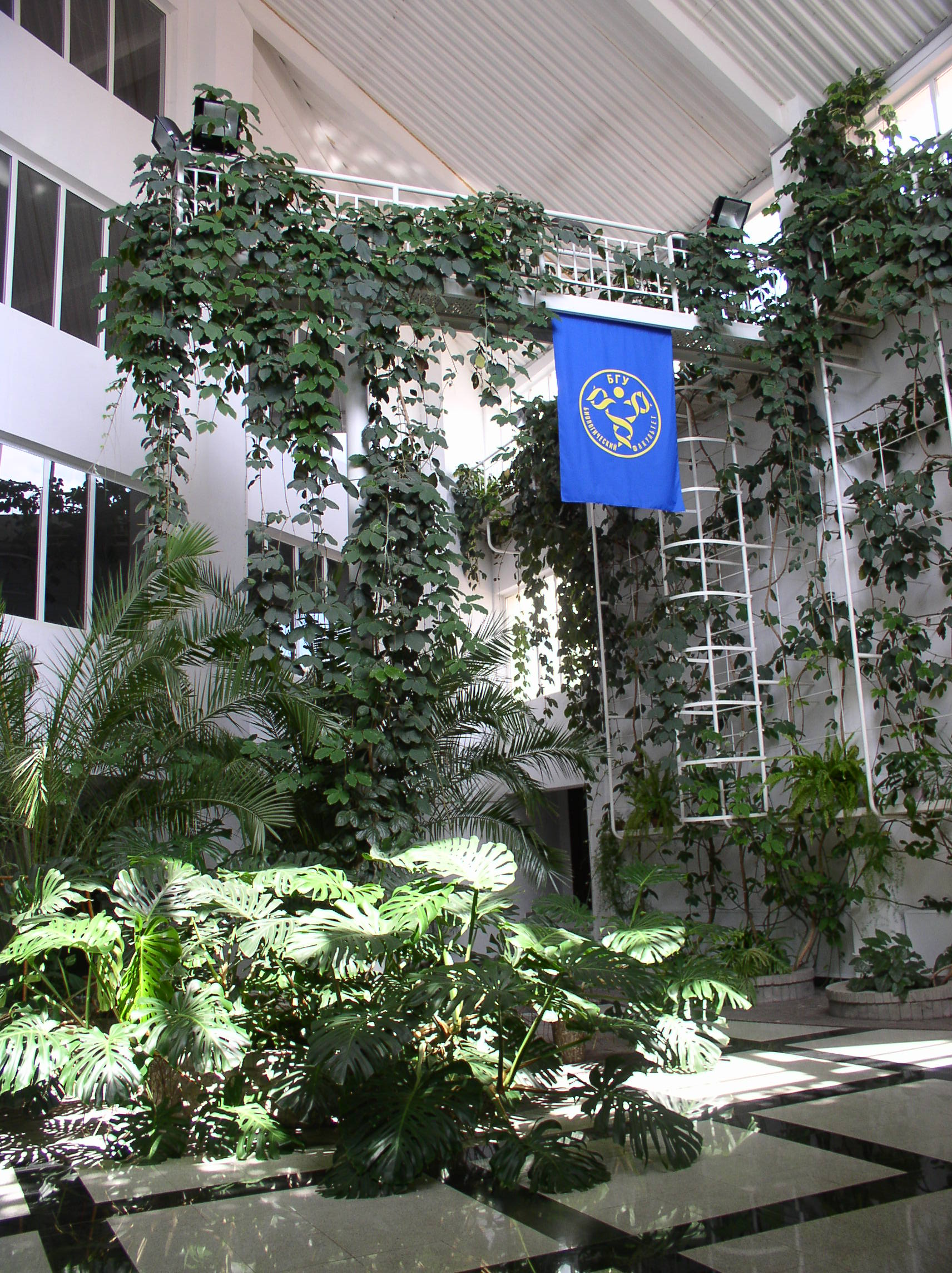 Hall of new building of biology faculty, Belarusian State University branch. Minsk, Belarus.